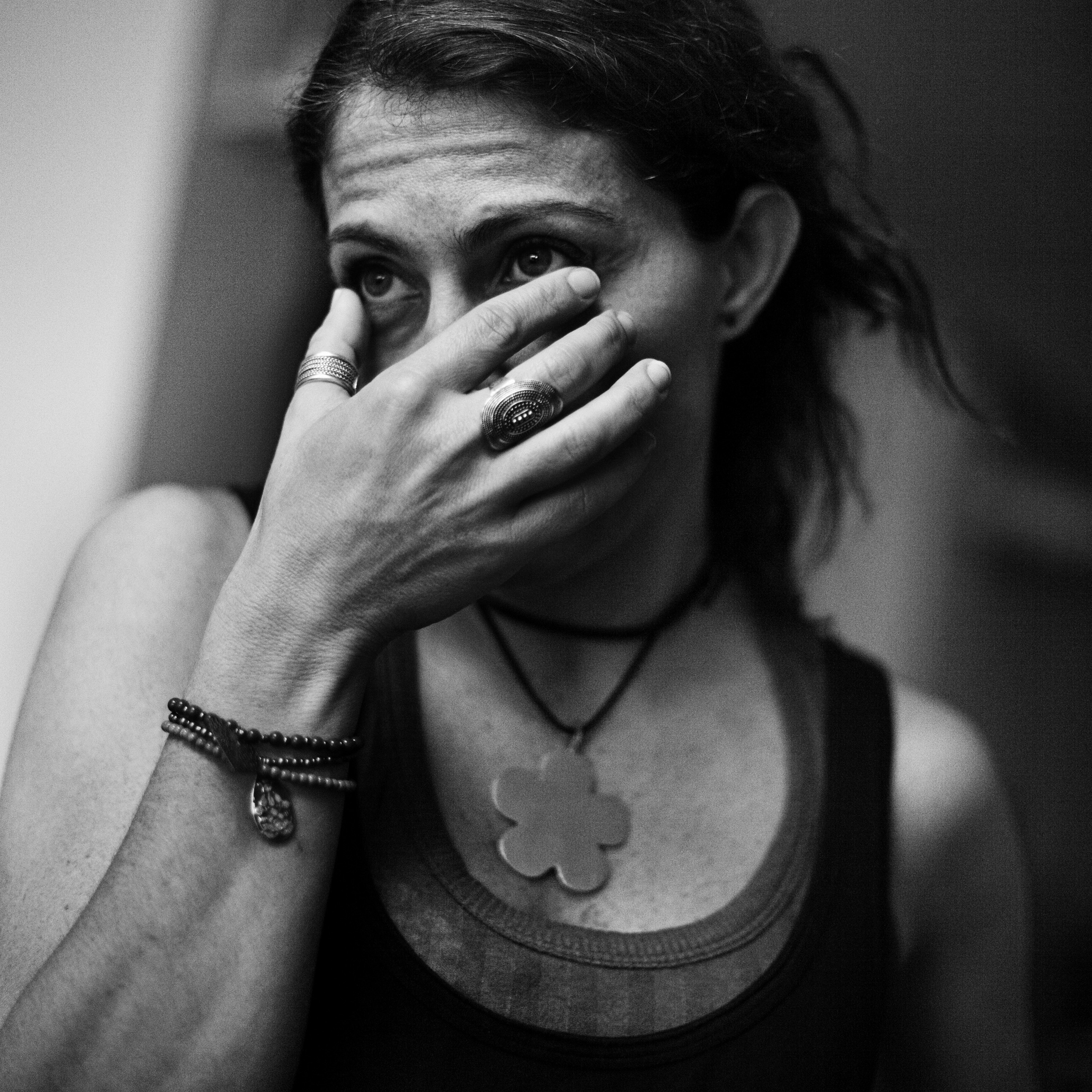 by Gilbert Hage